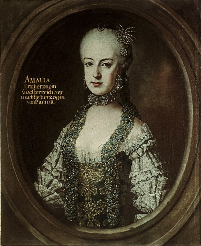 Portrait of Archduchess Maria Amalia of Austria (1746-1804)